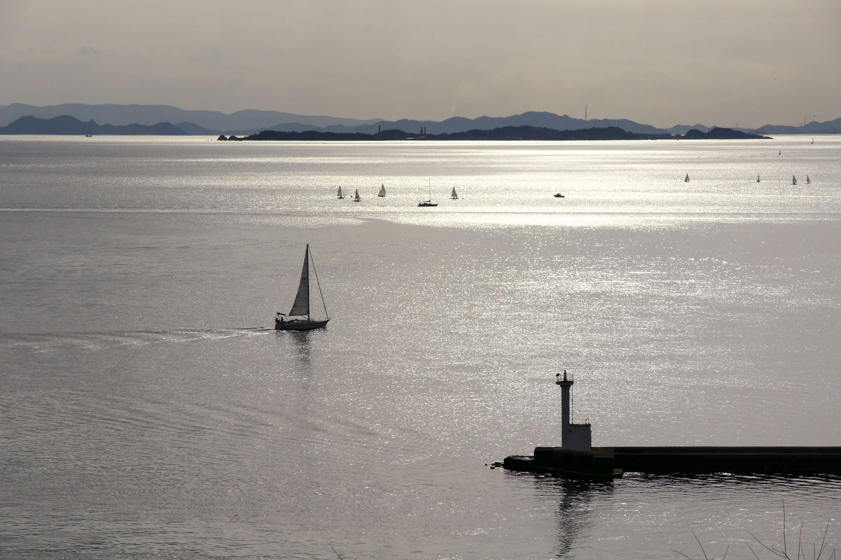 Ushimado Port in Ushimado, Setouchi, Okayama prefecture, Japan